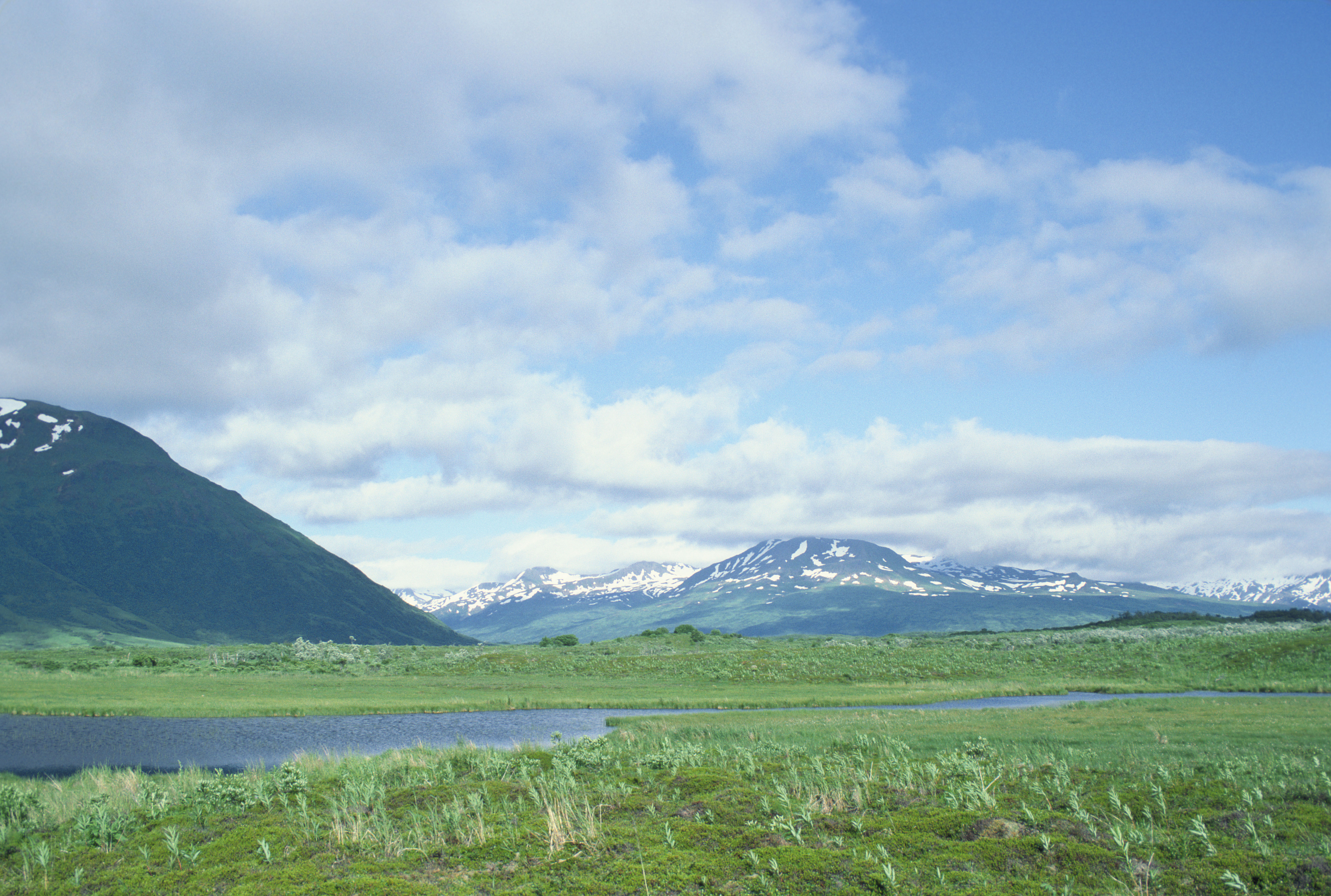 Scenery, Kodiak National Wildlife Refuge. View from near South Frazer Cabin [1]